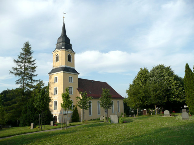 This image shows the church in Herzogswalde near Wilsdruff.